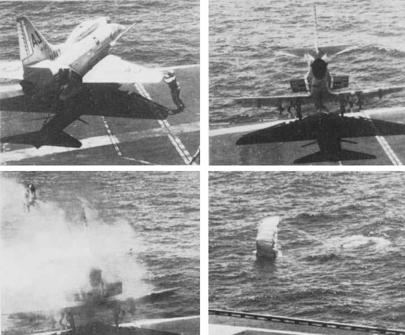 Four photos showing the accident of a Douglas A-4E Skyhawk (BuNo 150117) from attack Squadron VA-152 Mavericks suffering a brake failure following recovery aboard the aircraft carrier USS Shangri-La (CVS-38) on 2 July 1970. The first photo shows the Skyhawk heading towards the catwalk just short of the port elevator, with Chief Aviation Boatswain's Mate Joe Hammond trying to push the the starboard wingtip in hopes of turning the aircraft. The second photo shows the the plane with the front wheel in the catwalk. The pilot, Lieutenant (Junior Grade) William Belden, ejects in the third photo and is visible in the water in the fourth photo. Belden was rescued by Shangri-La´s Seasprite helicopter from helicopter combat support squadron HC-2 Det.38 Fleet Angels. This accident happened during the Shang´s last deployment before her decomissioning from 5 March to 17 December 1970 to Vietnam, with Attack Carrier Air Wing 8 (CVW-8) embarked.